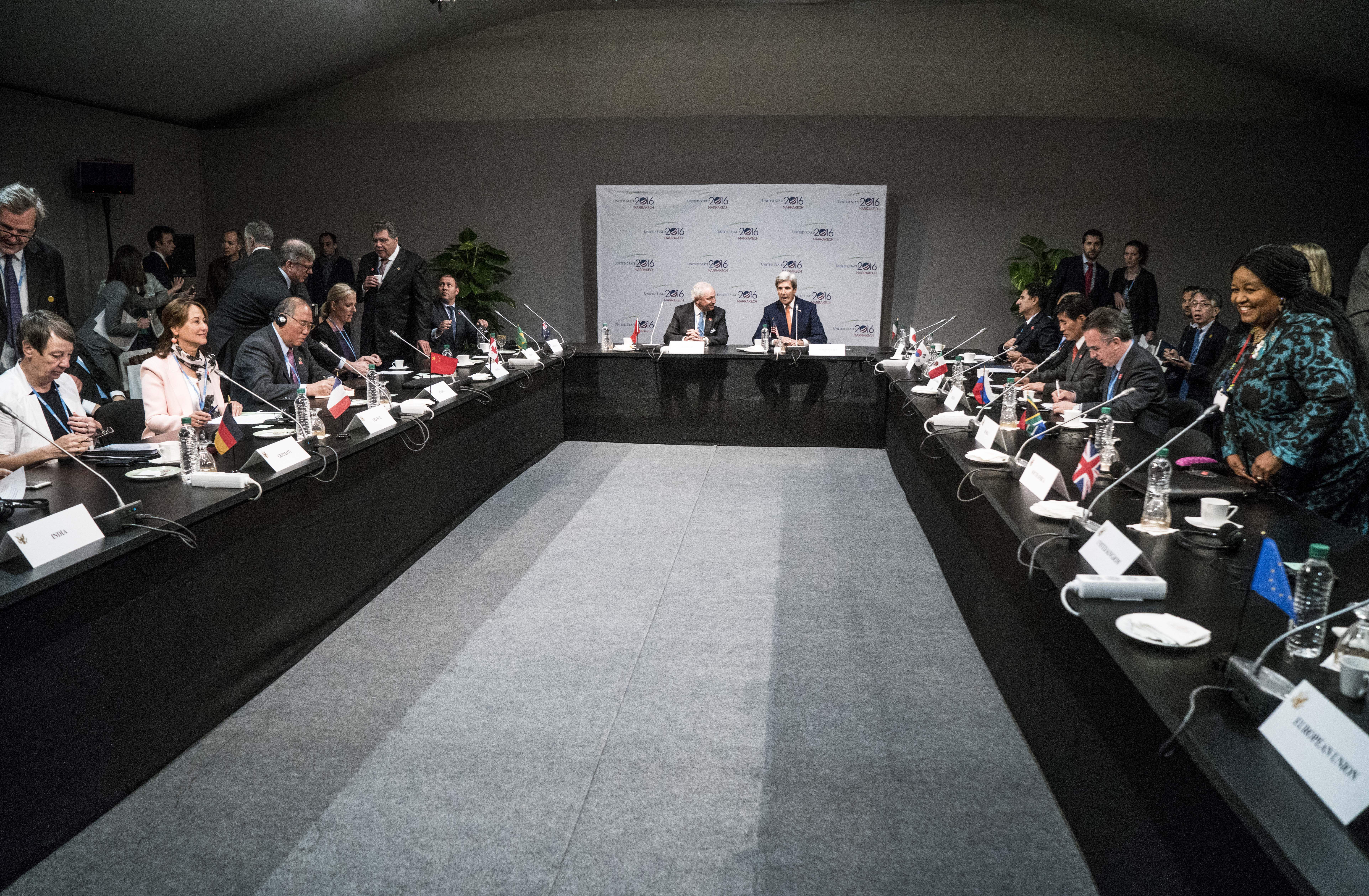 U.S. Secretary of State John Kerry and former Moroccan Ambassador to the U.S. Aziz Mekouar host the Major Economies Forum on Energy and Climate Ministerial Meeting at COP22 in Marrakech, Morocco, on November 16, 2016. [State Department photo/ Public Domain]